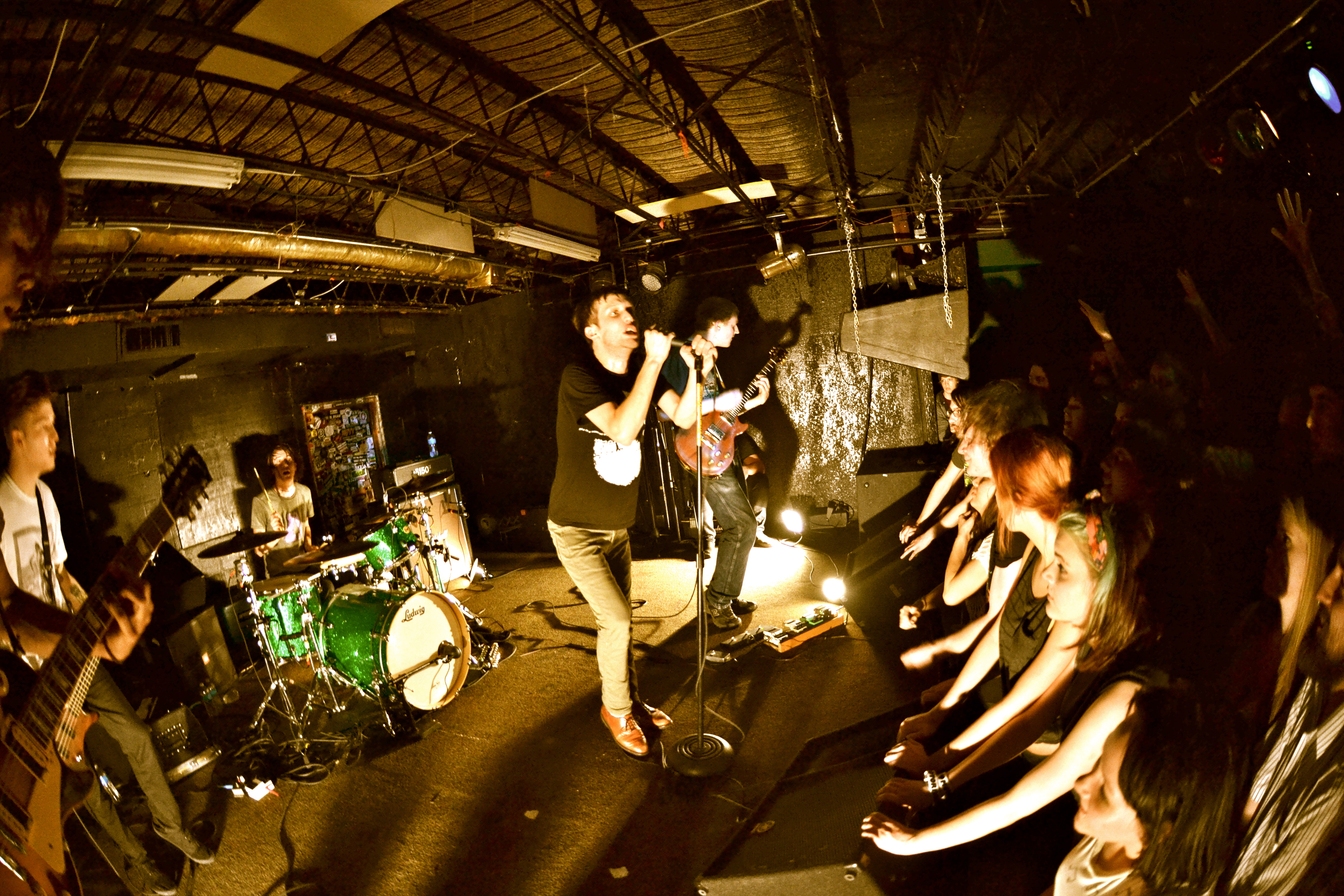 La Dispute at a concert in Iowa City, IA in 2012.